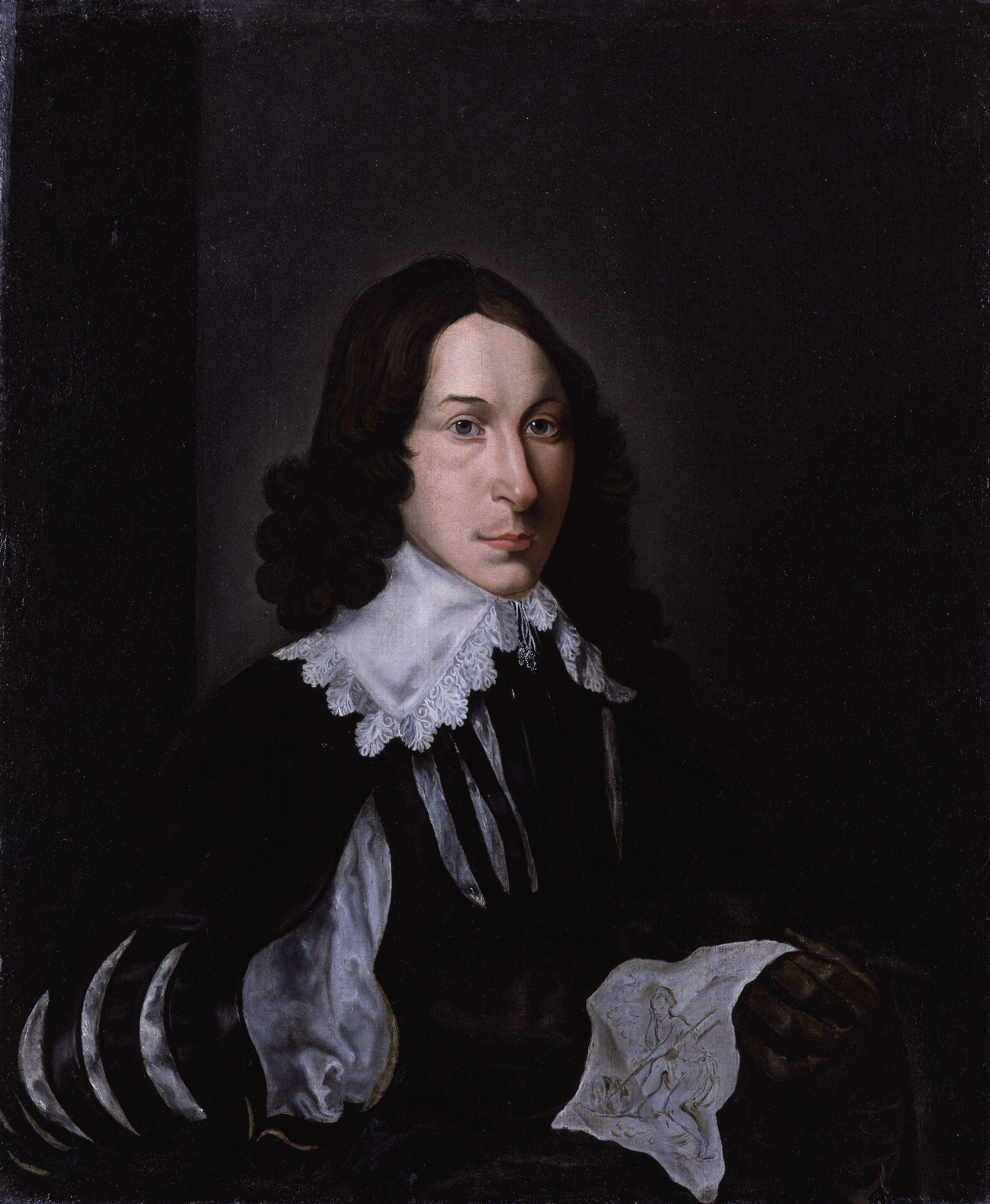 John Evelyn, by Hendrick Van der Borcht (died 1660). All images in this batch have been confirmed as author died before 1939 according to the official death date listed by the NPG.